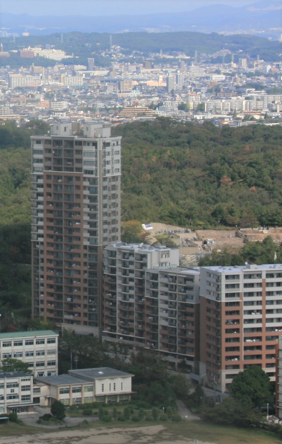 Grande Maison Hoshigaoka-Yamate seen from Higashiyama Sky Tower in Chikusa-ku, Nagoya, Aichi Prefecture, Japan.